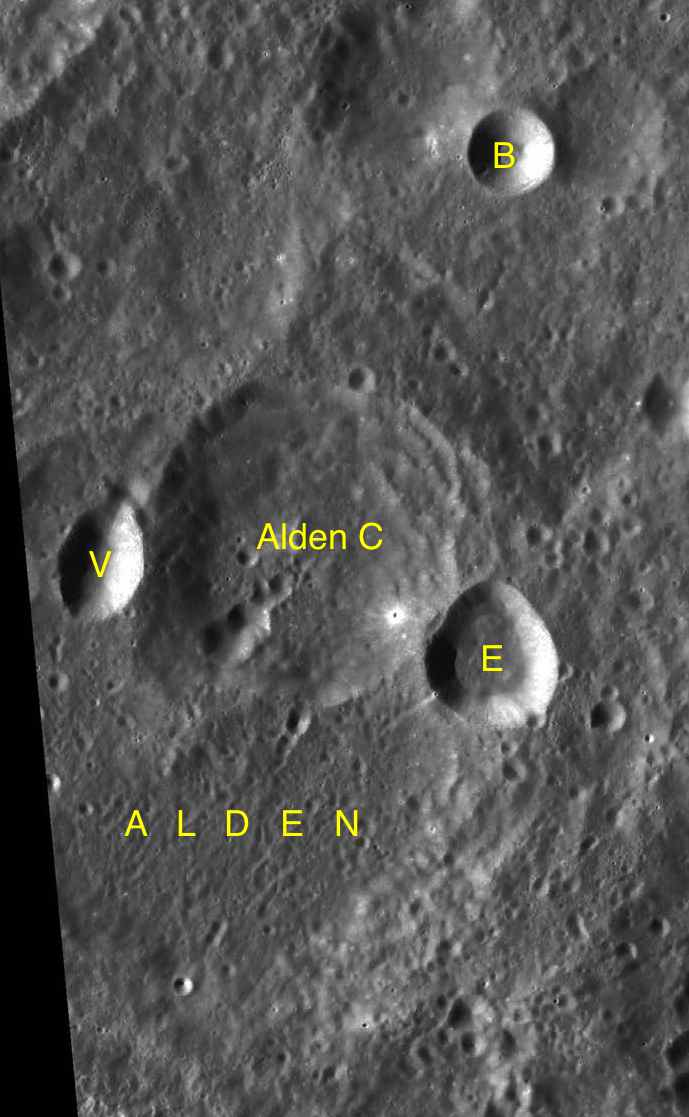 Part of the chart LAC-101 used for the presentation